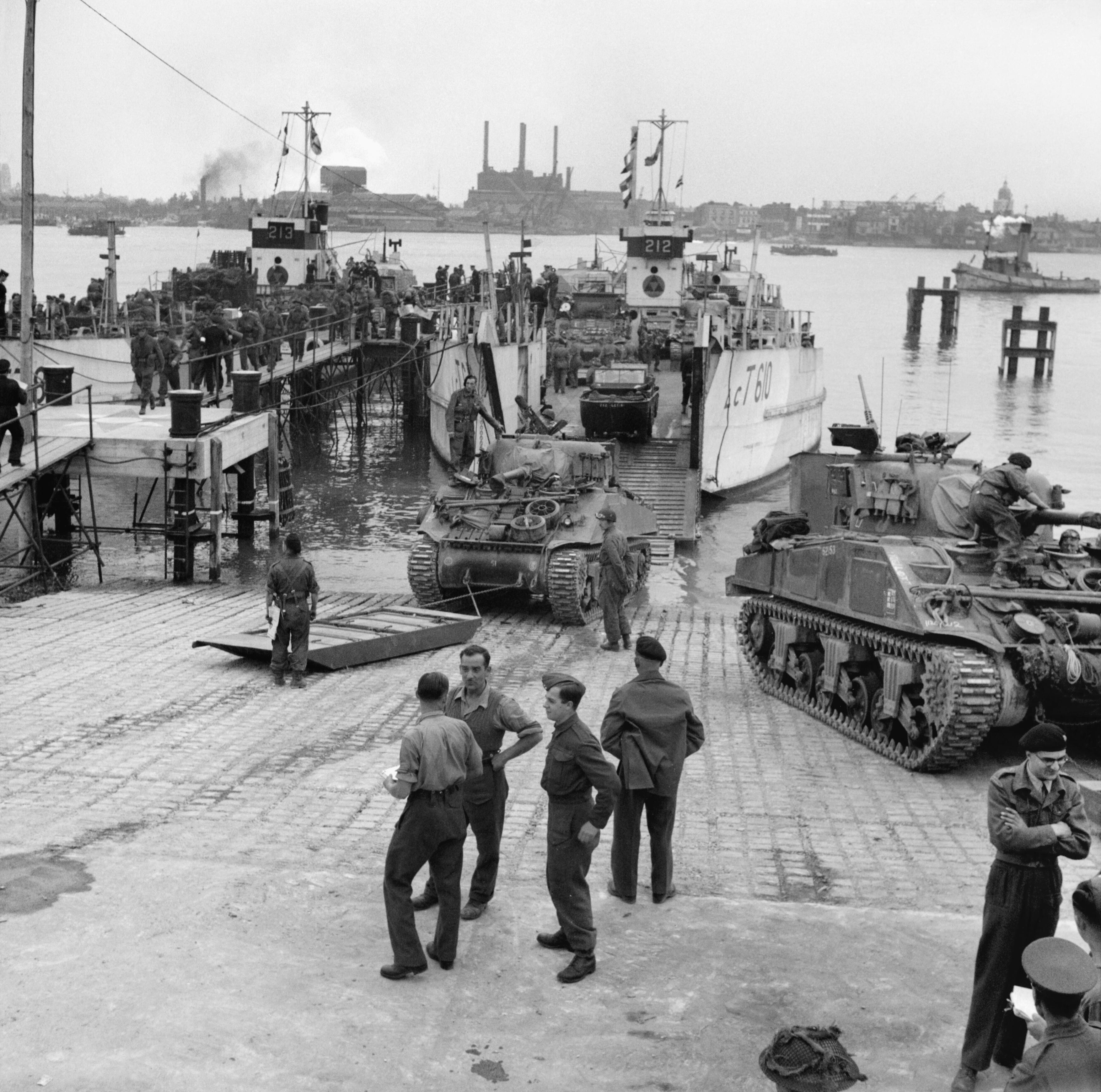 Allied Preparations For D-day Sherman tanks of the 13th/18th Hussars, 27th Armoured Brigade, embarking onto LCT-610 at Gosport, 3 June 1944.The 'three triangles' formation sign of 3rd Infantry Division can be seen on the wheelhouse of the landing craft.